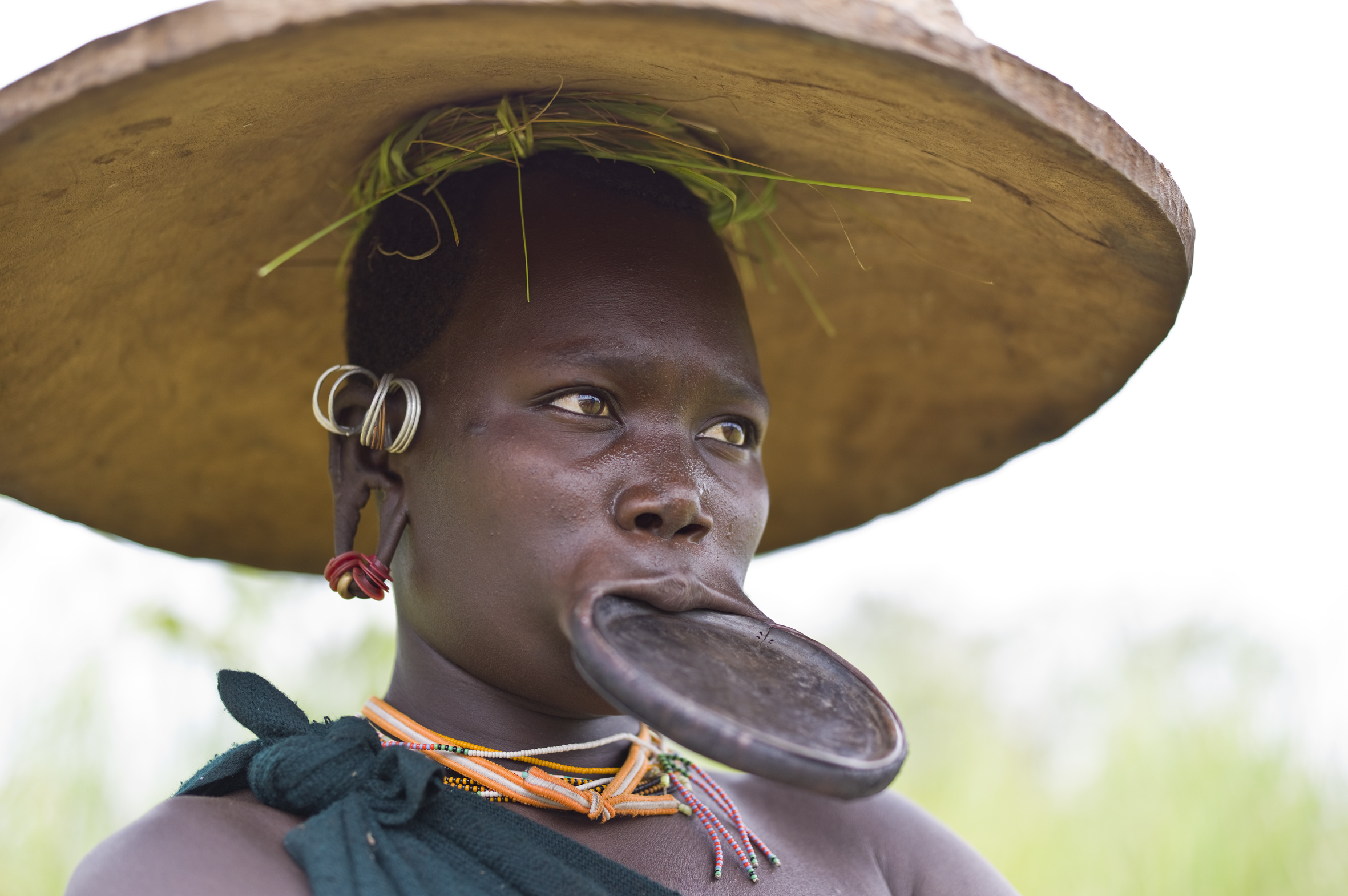 Suri with lip plate near Tulgit, Ethiopia